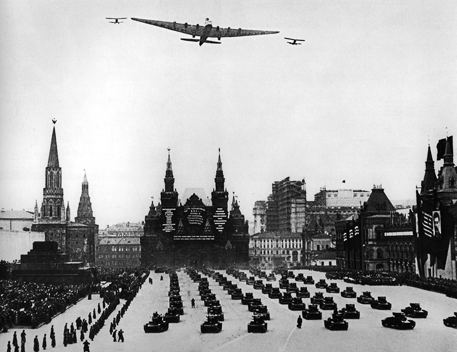 Tupolev ANT-20 "Maxim Gorky" overflying Red Square, Moscow